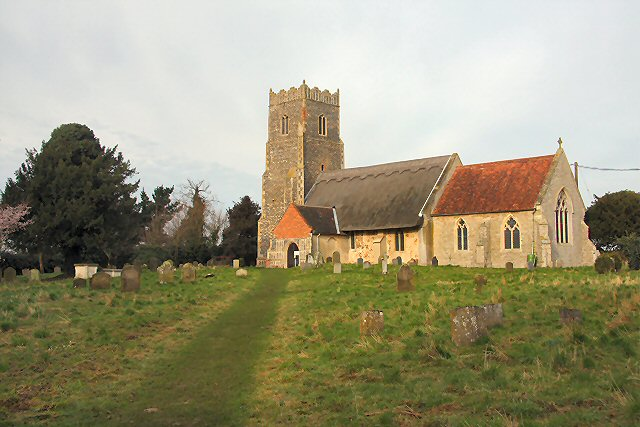 St Botolph's Church, Iken A remote church on a peninsula of land that juts into the River Alde. The 'village' of Iken is no more than a few scattered houses.